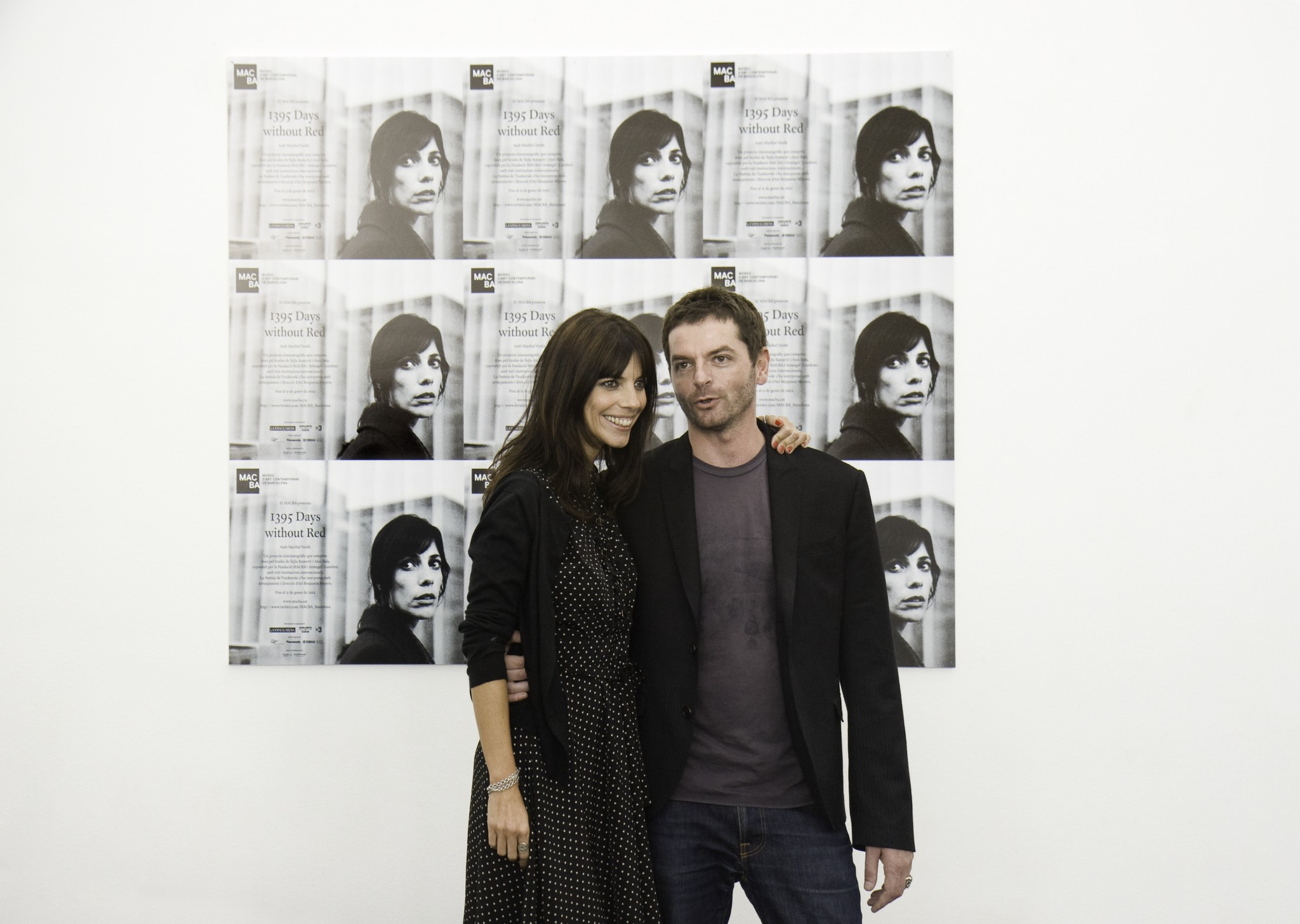 Anri Sala and Maribel Verdú during the presentation of the MACBA Collection